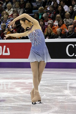 Kim 2013 World Championship SP